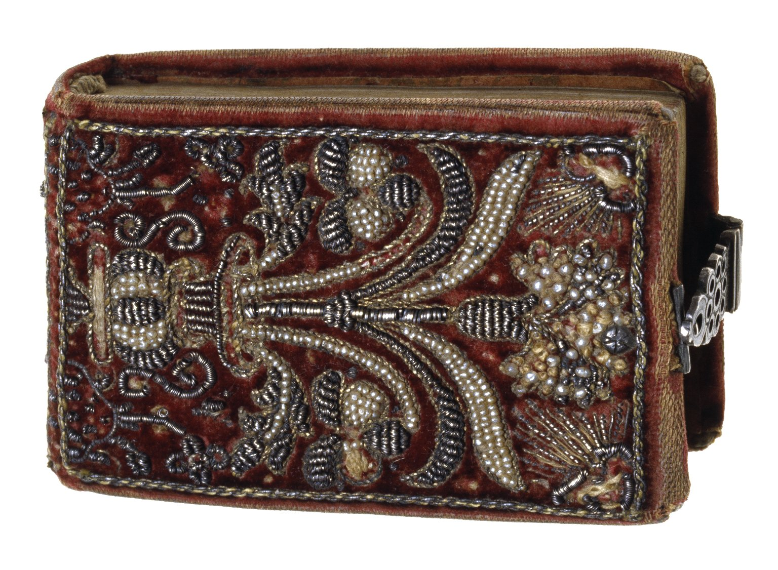 The embroidered binding for Esther Inglis' Argumenta psalmorum Davidis